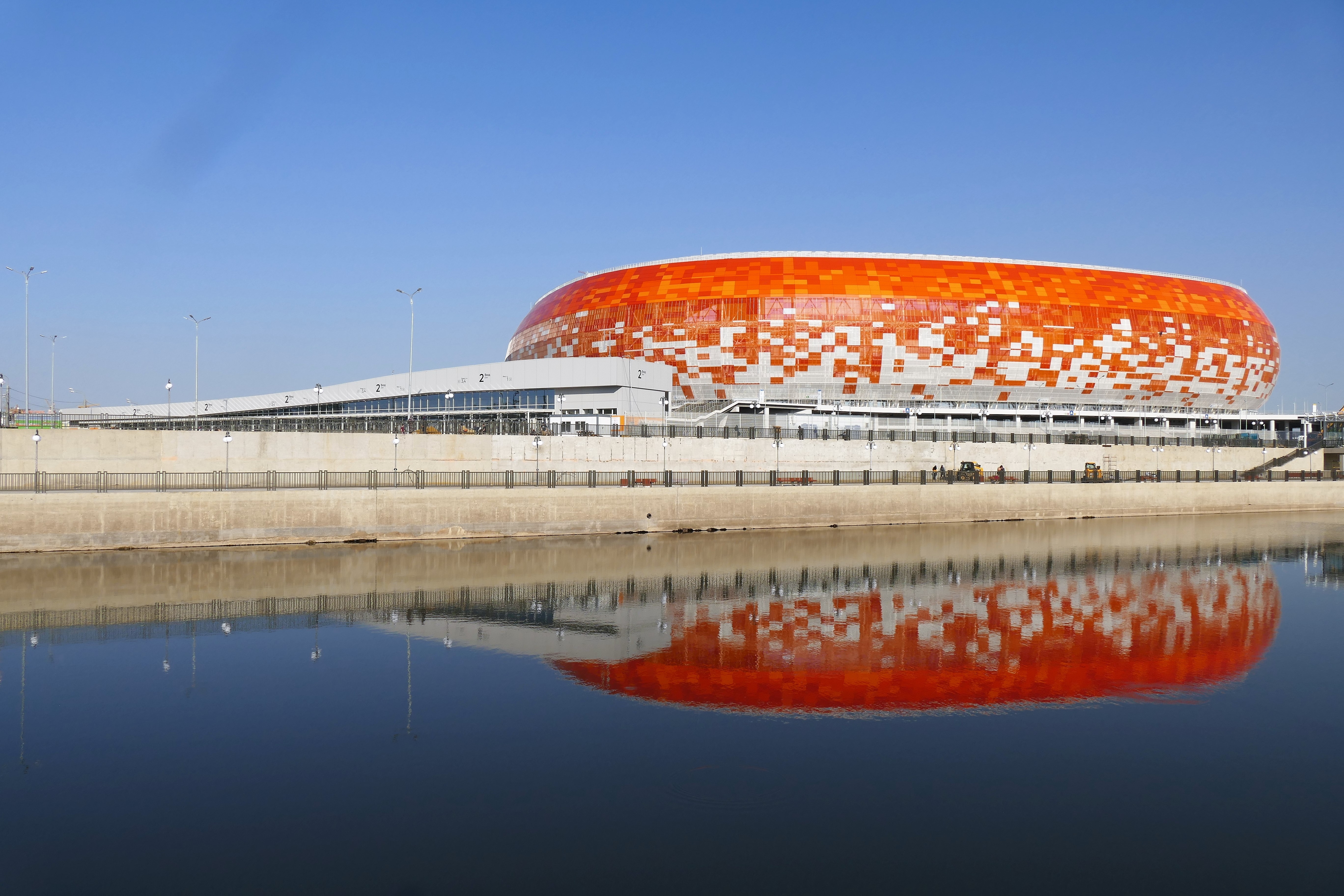 Saransk, Mordovia Arena